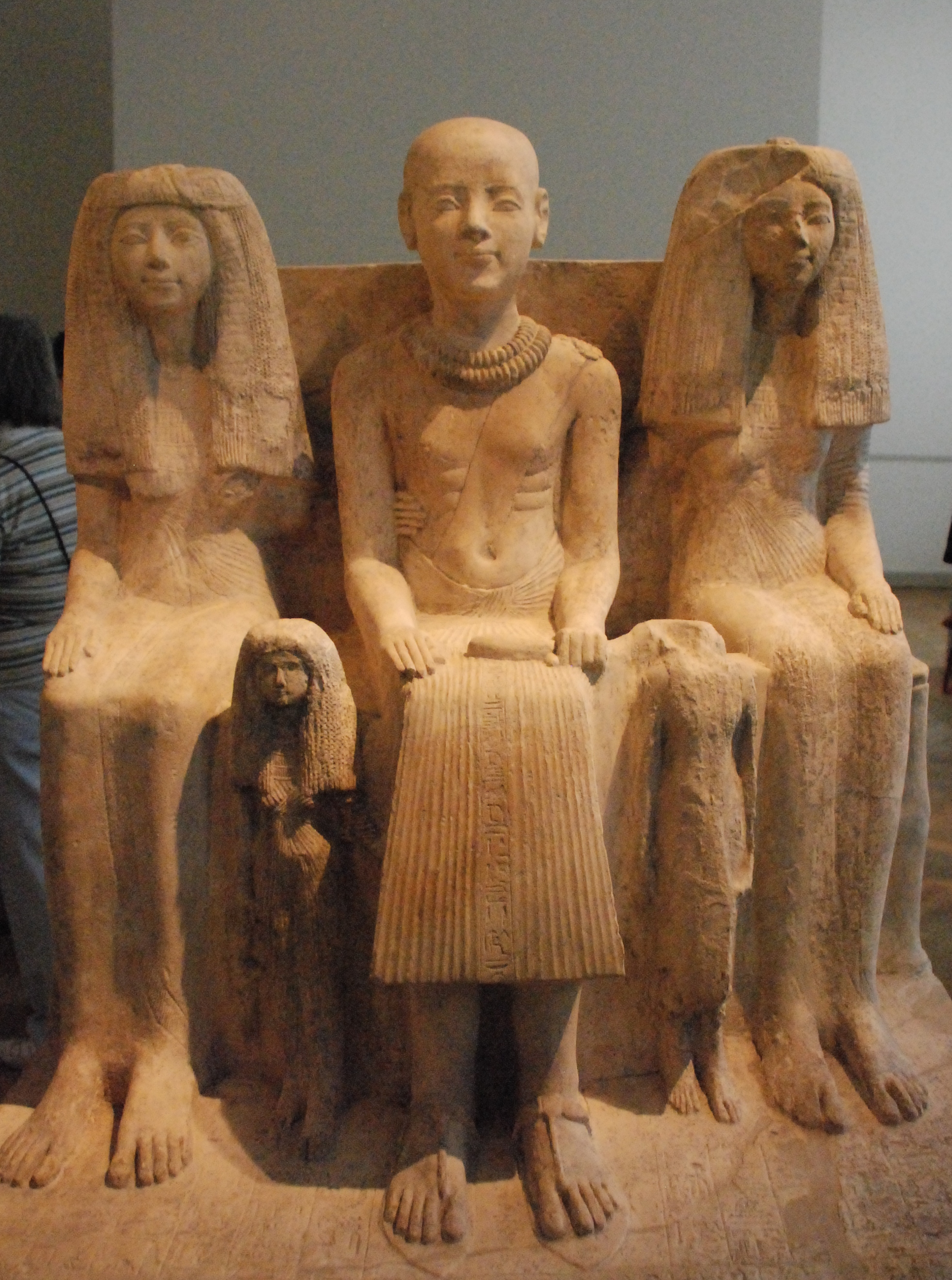 Family group of Ptahmai, Neues Museum, Berlin